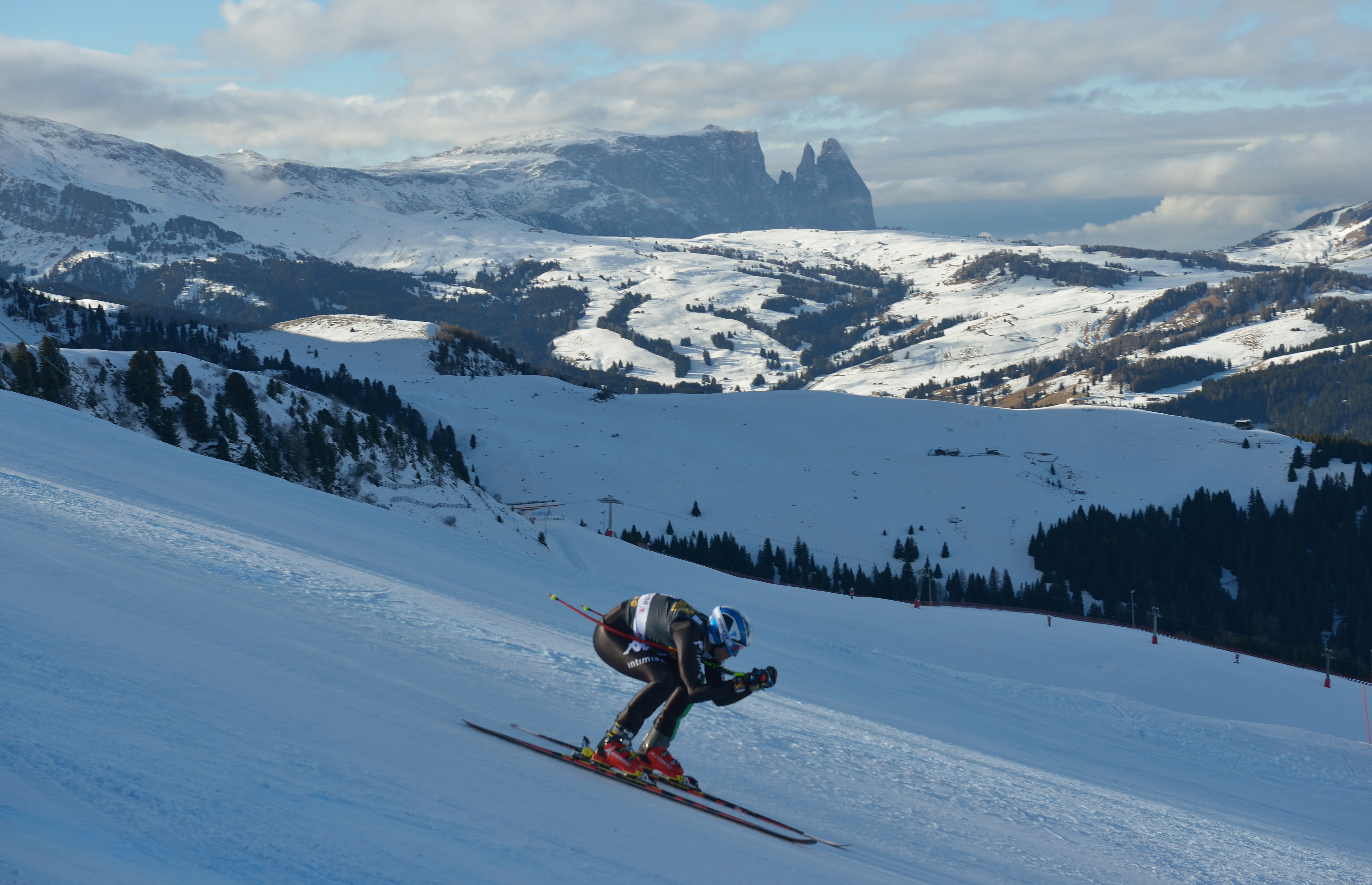 Werner Heel at the Fis Ski World Cup Val Gardena-Gröden - 46th Saslong Classic in Gröden